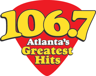 Former logo of the radio station used between 22 November 2010 and 6 Aprl 2012.